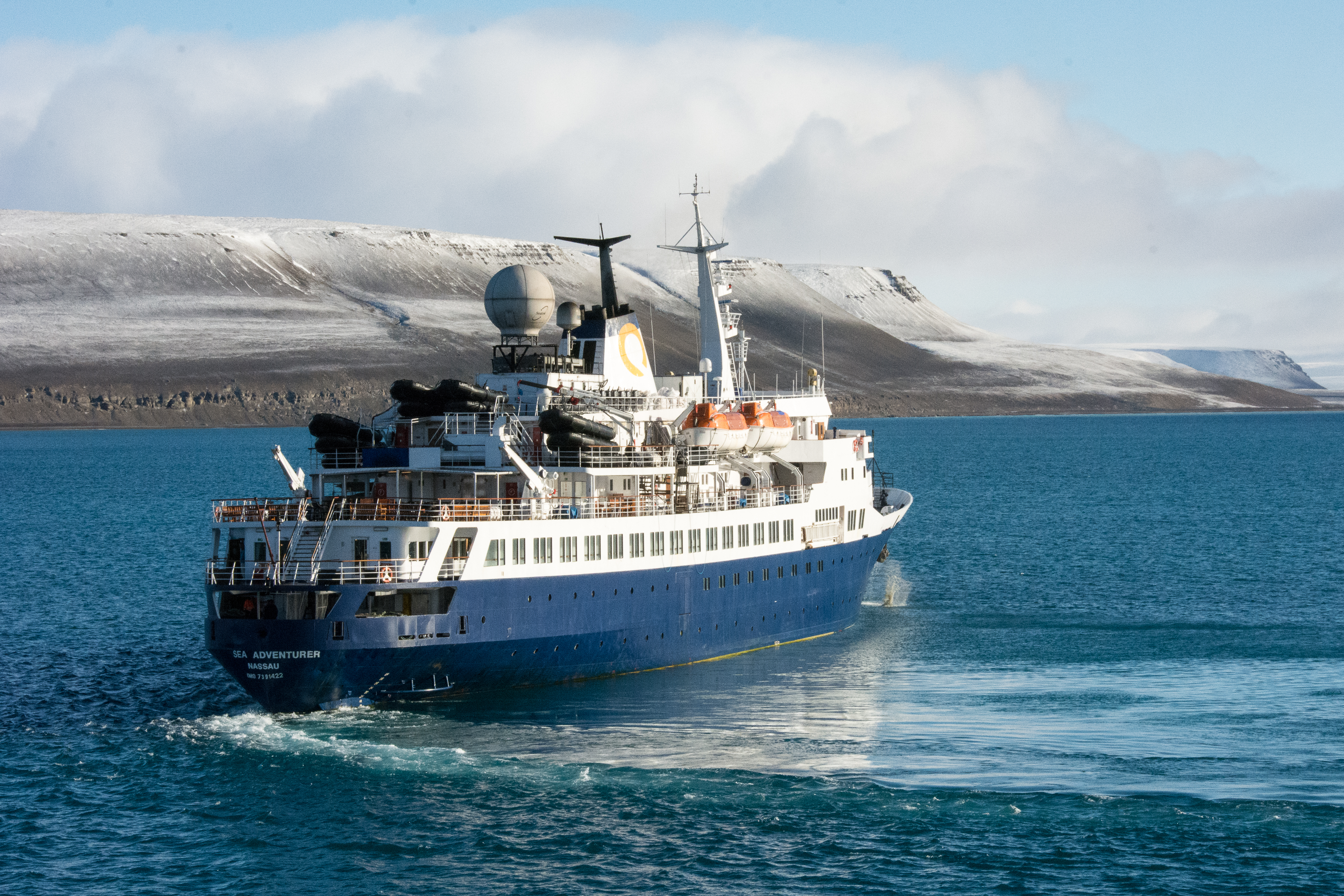 Quark Expeditions ship - SEA ADVENTURER - IMO 7391422, weighs anchor to depart from Griffin Inlet, Beechey Island, Nunavut, Canada on September 21st, 2015.